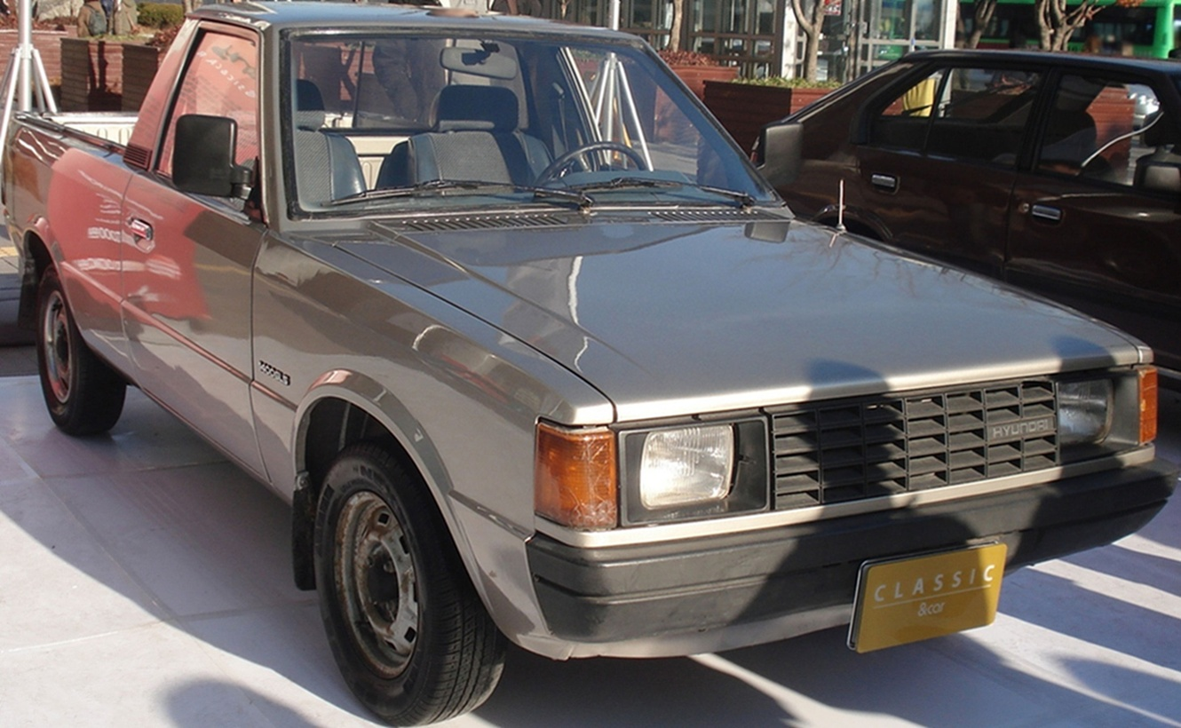 Hyundai Pony Ⅱ Pick Up